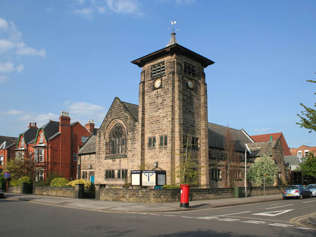 West Bridgford Methodist Church On the corner of Patrick Road and Musters Road, this church first opened its doors in 1888. It now has a modern extension (with the red roof) on Patrick Road.